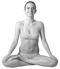 Siddhásana for women